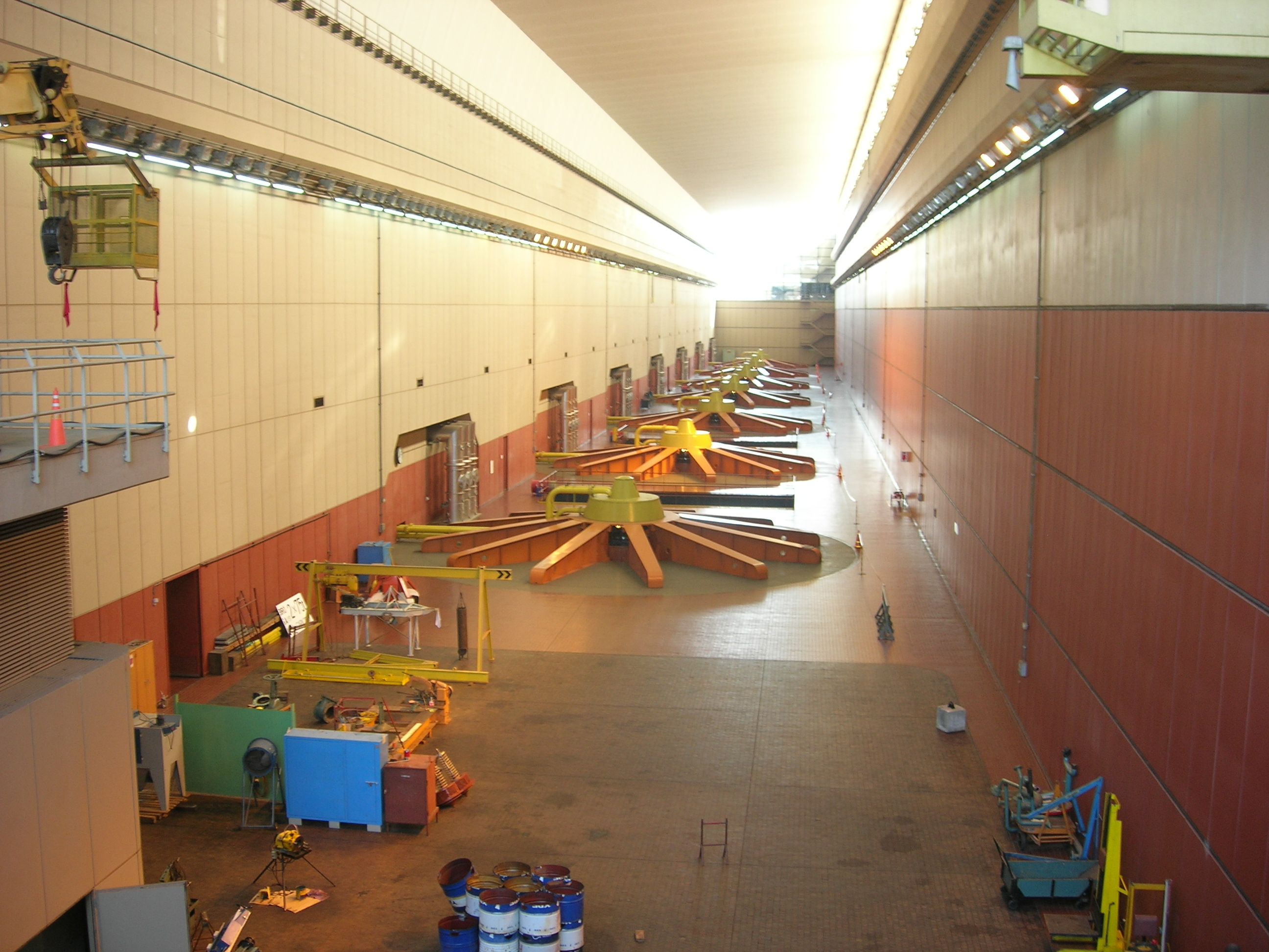 Salto Grande turbine room